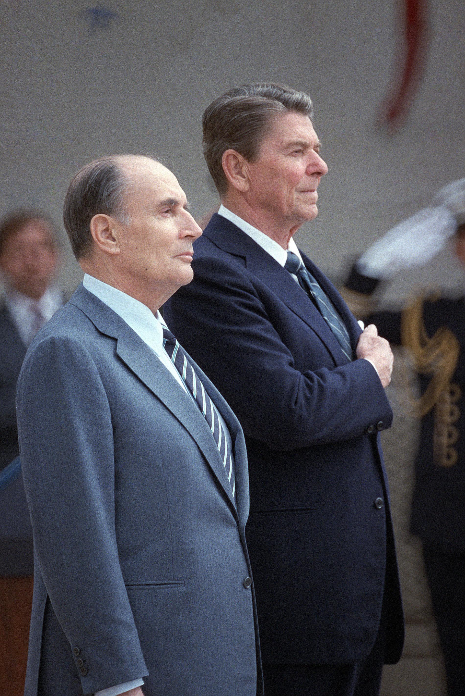 President Ronald Reagan and President Francois Mitterrand of France attend a wreath-laying ceremony at the American cemetery at Omaha Beach. The ceremony is part of the 40th anniversary of D-day, the invasion of Europe.